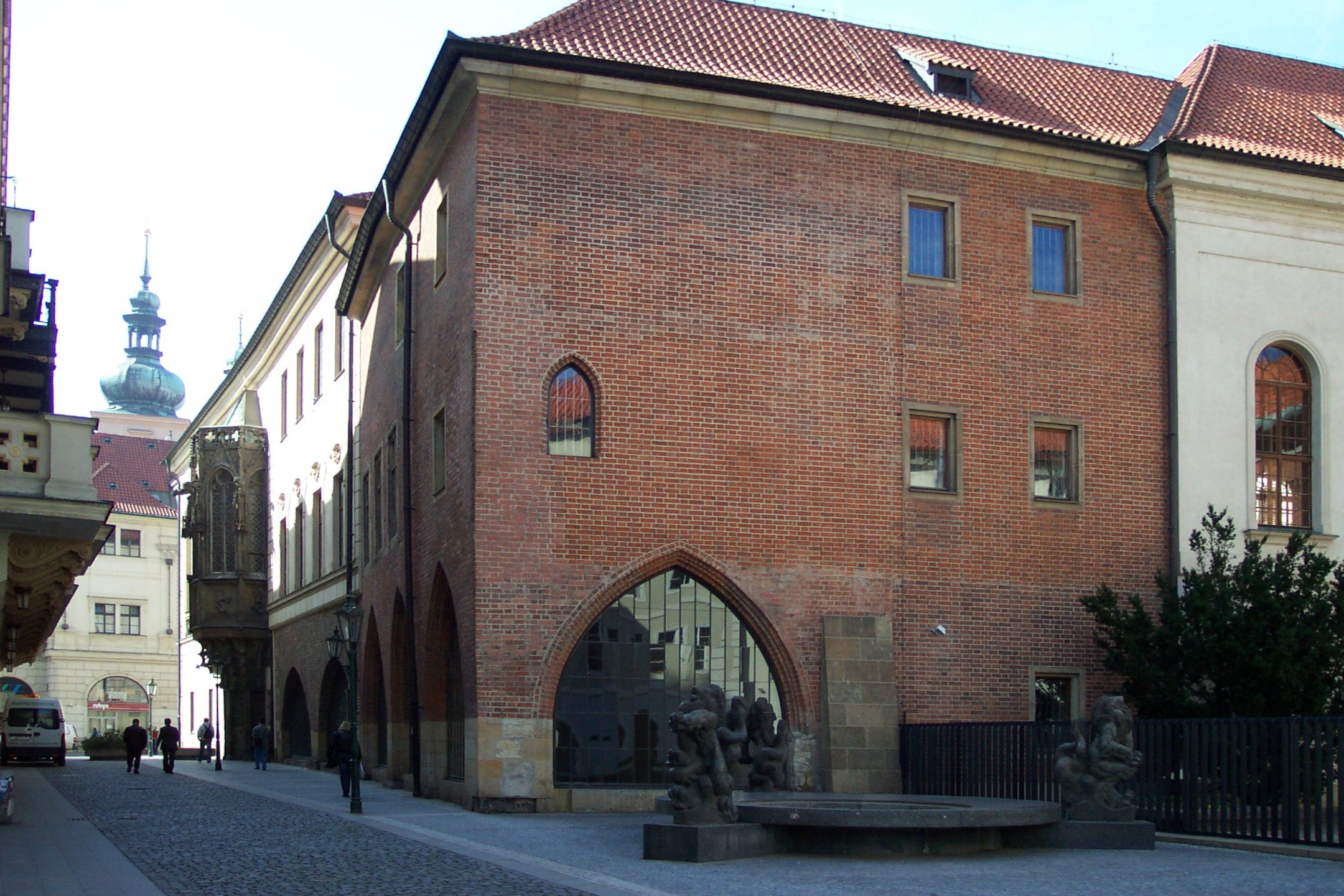 Prague, Old Town, historic building of CUNI